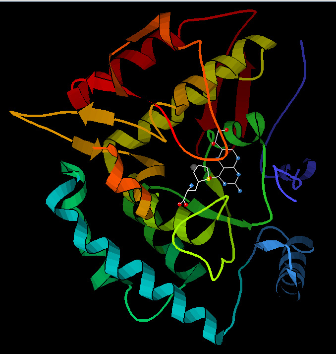 I am author, created from PDB 1KW0